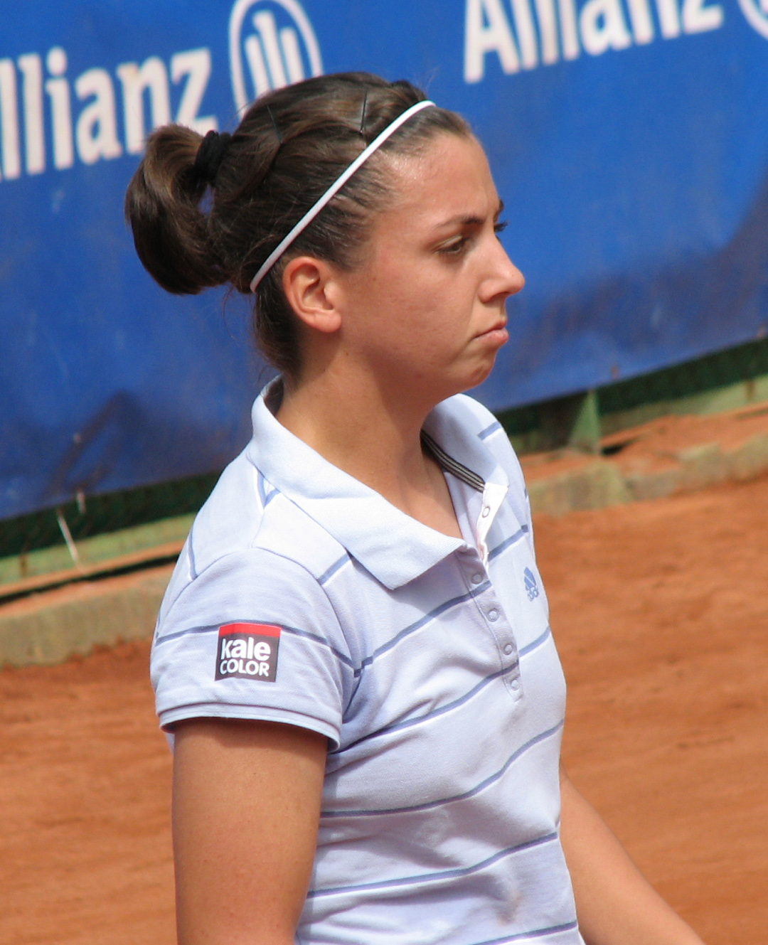 Pemra Özgen (Allianz Cup 2009)